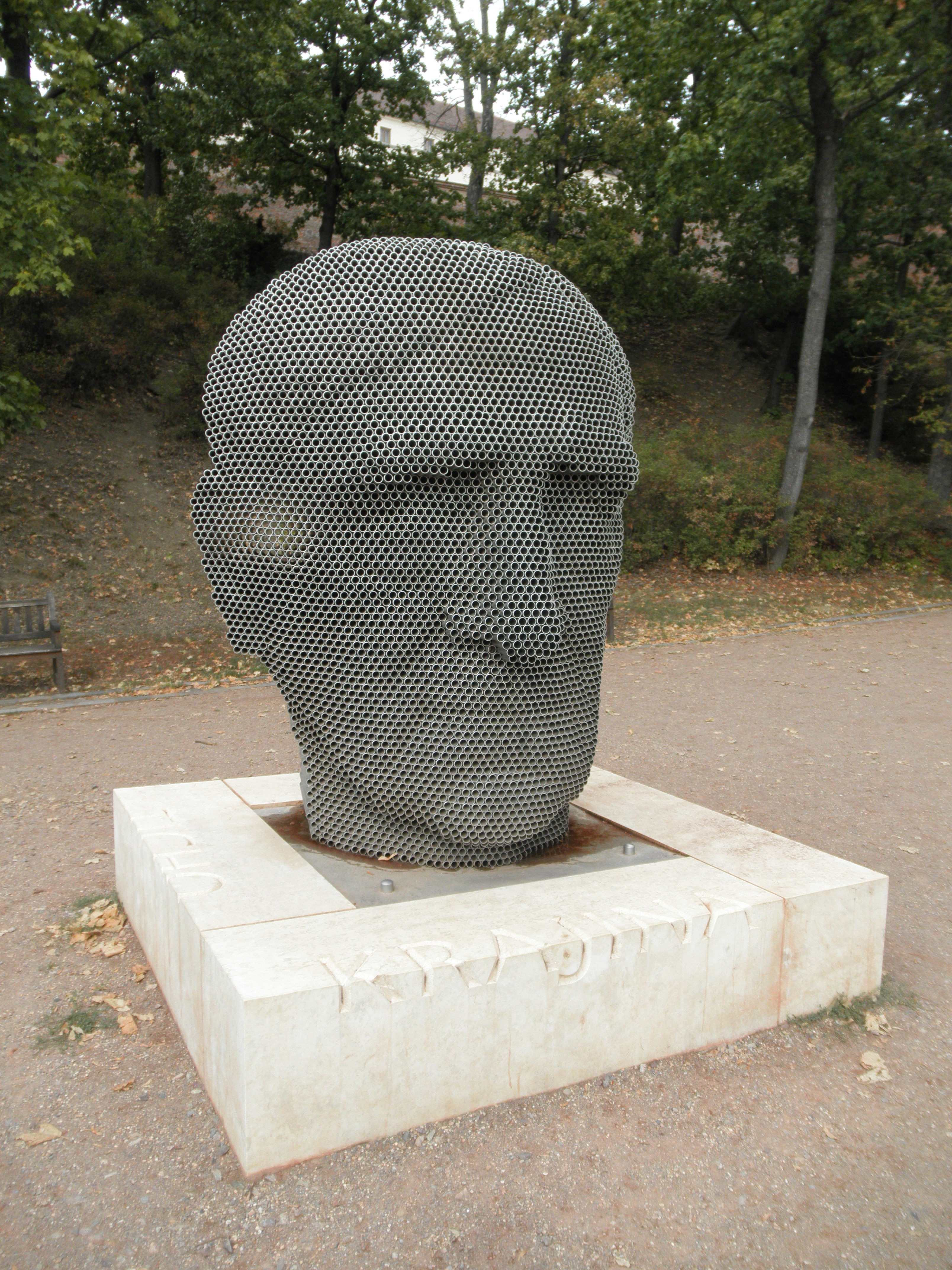 Photo of the statue Jan Skácel at the Špilberk hill in Brno. The statue was made from pipes by Jiří Sobotka in 2016 as a part of the project Statues for Brno (Sochy pro Brno).